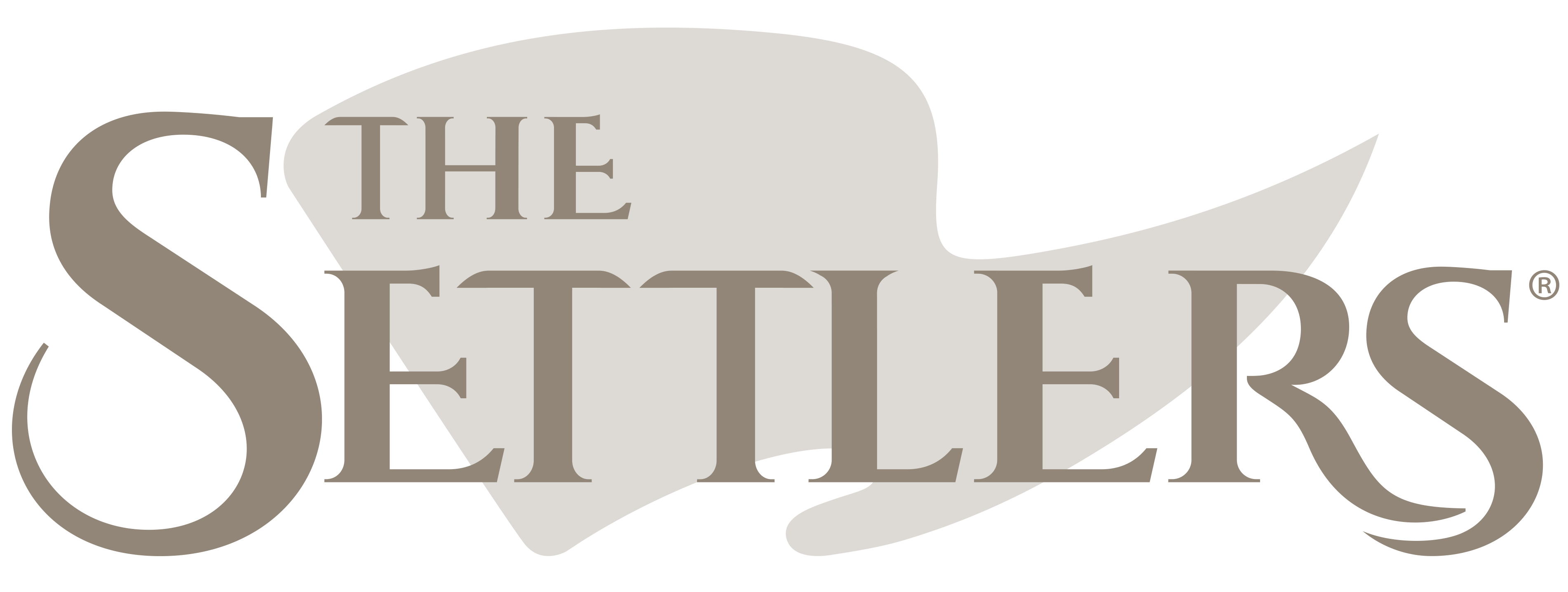 Logo for The Settlers series (as of 2018)